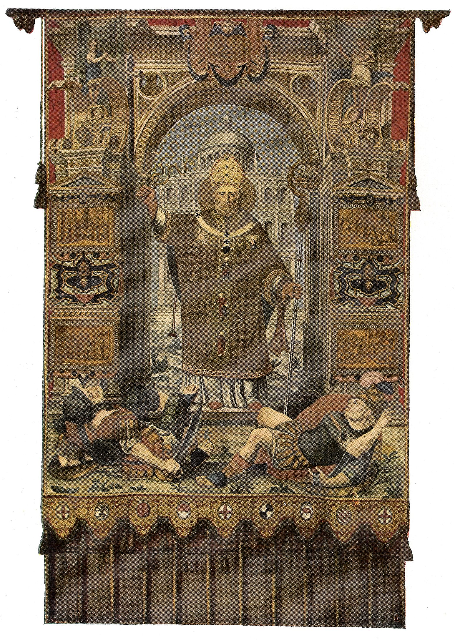 The Gonfalone of Milan (about 1566)